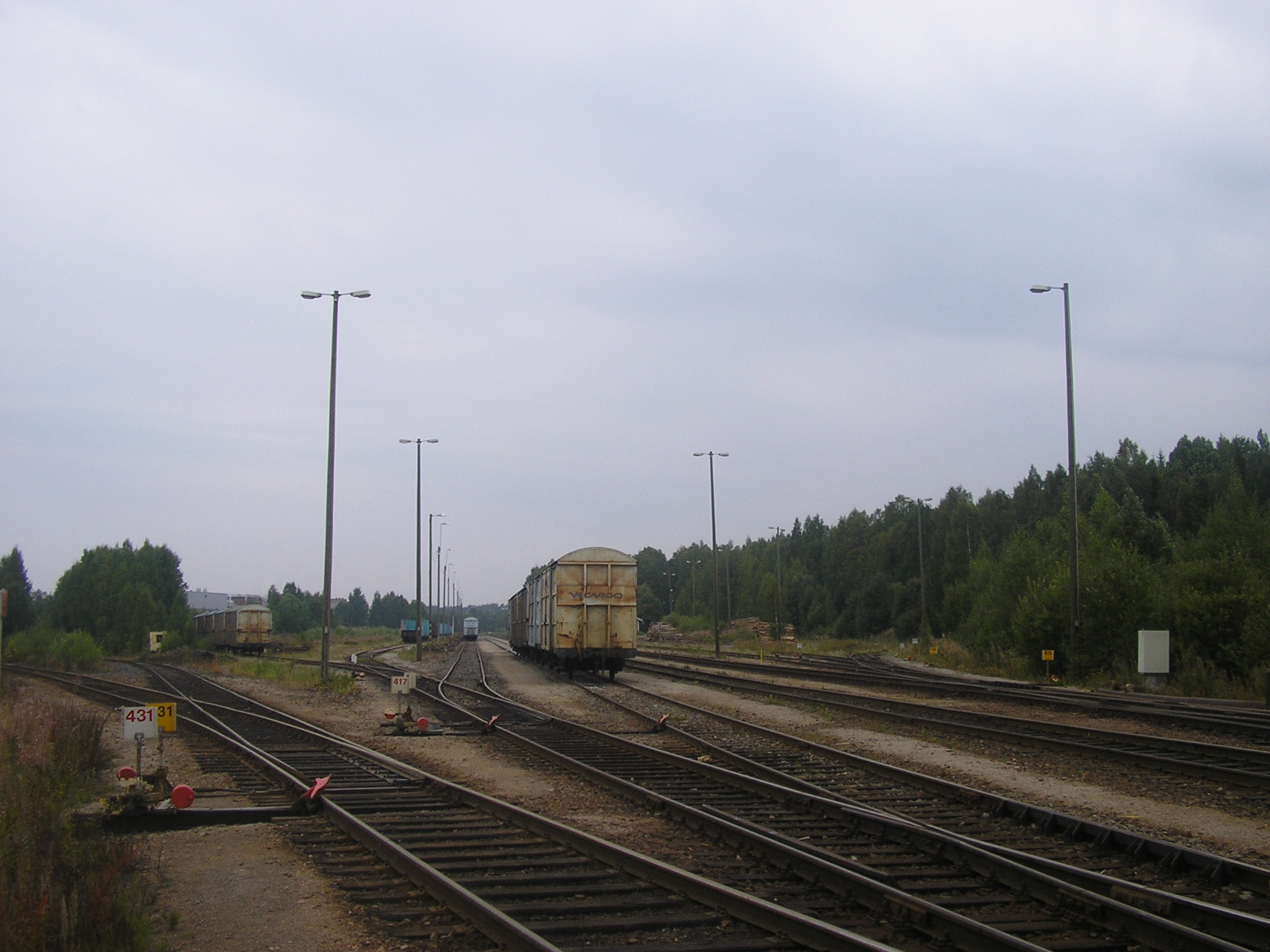 Äänekoski railyard on Jyväskylä–Haapajärvi railway